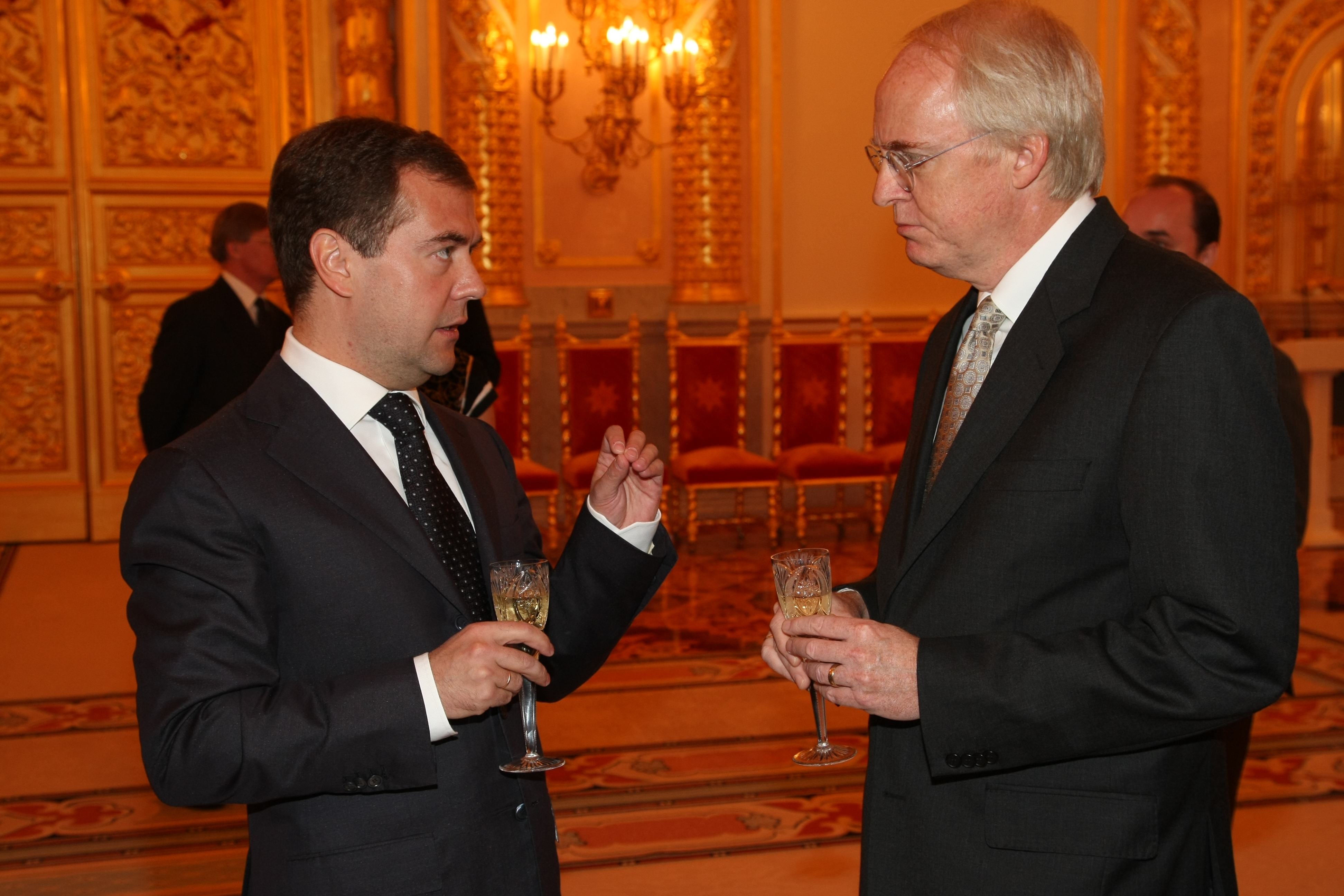 Ambassador John Beyrle (on the right) talks with Russian President Dimitri Medvedev, after presenting his credentials (September 18, 2008). Photo provided to Embassy by Russian Presidential Press Service.